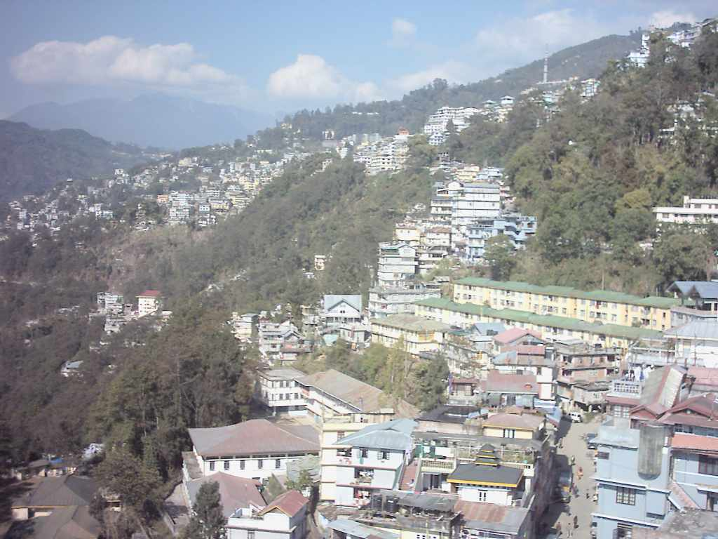 February 2004. Danny Burke